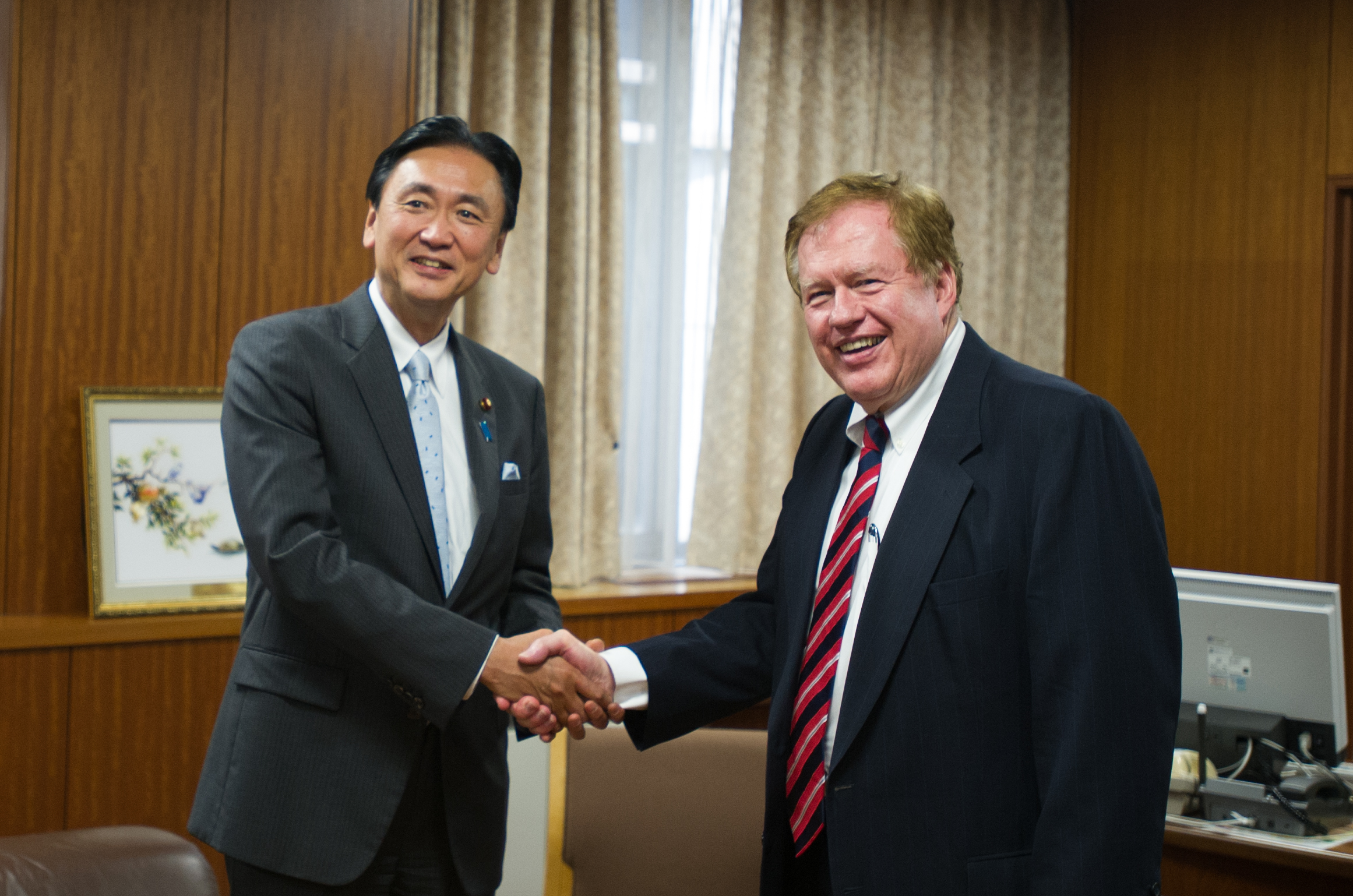 Robert R. King, Special Envoy for North Korean Human Rights Issues, met Keiji Furuya, Chairman of the National Public Safety Commission and Minister of State for Disaster Management, at the Cabinet Office Building in Chiyoda Ward, Tōkyō Metropolis on October 28, 2013.